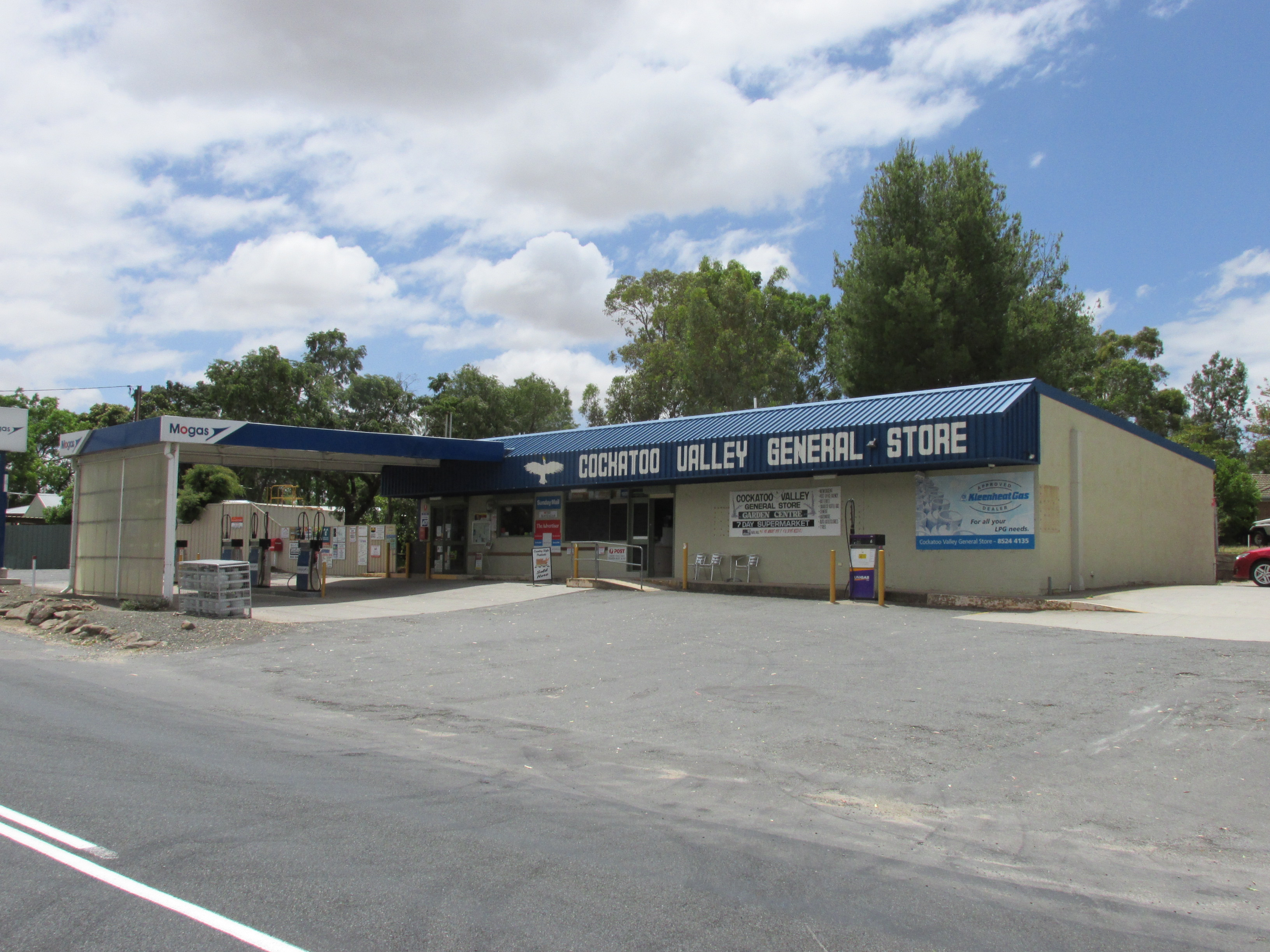 General store on Williamstown Road, Cockatoo Valley, South Australia in the Barossa Valley region.